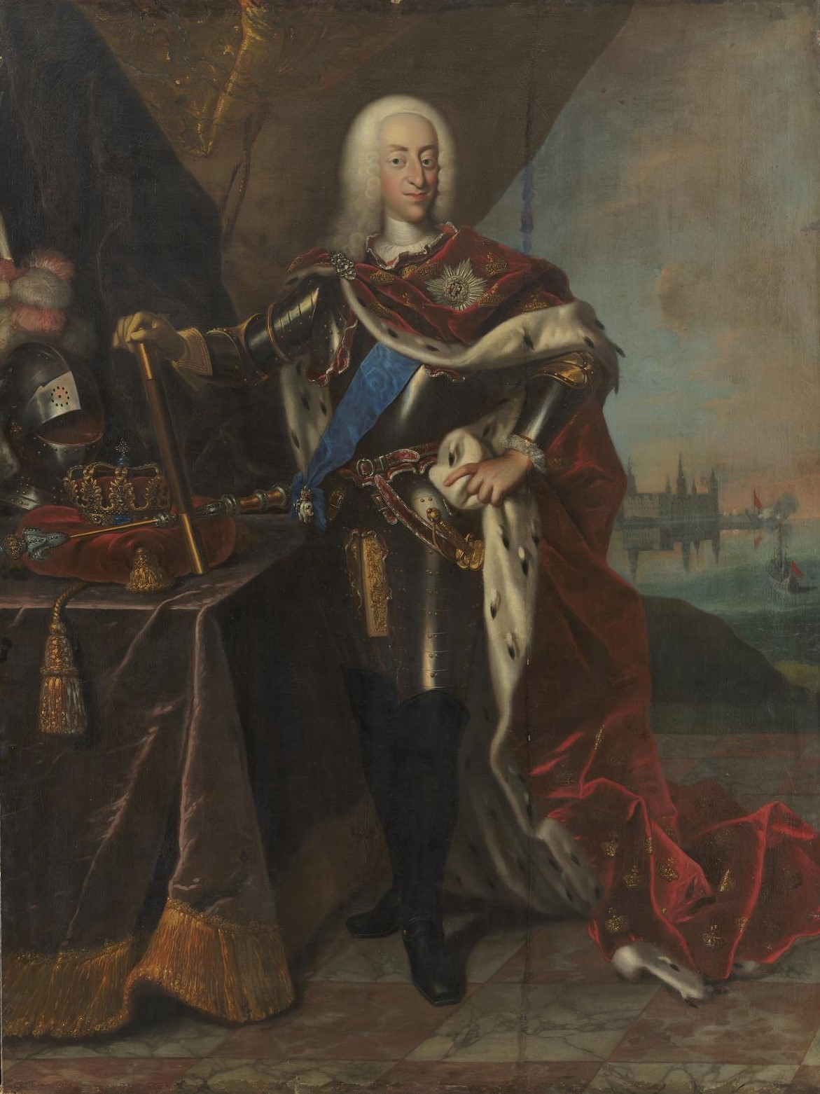 Portrait of Christian VI of Denmark (1699-1746)label QS:Len,"Portrait of Christian VI of Denmark (1699-1746)" label QS:Lla,"Christianus VI Daniæ Norvegiam rex"